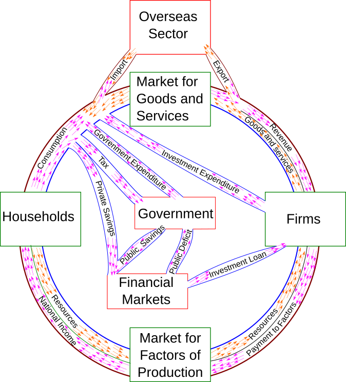 This graph shows the circular flow of income in a five-sector economy, flow of money is shown with purple and flow of goods and services with orange.